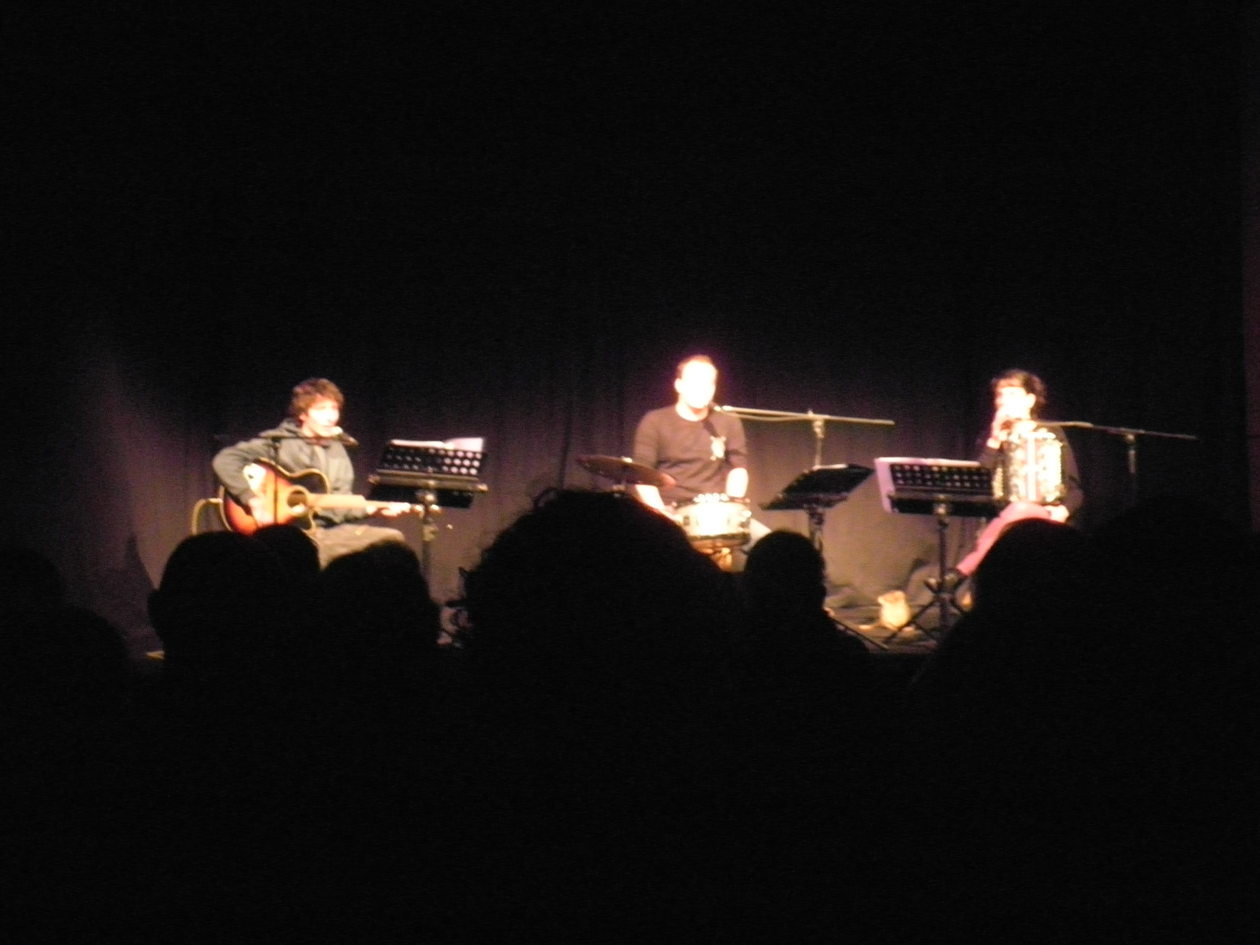 Holako folk music group in Koldo Mitxelena Kulturunea.